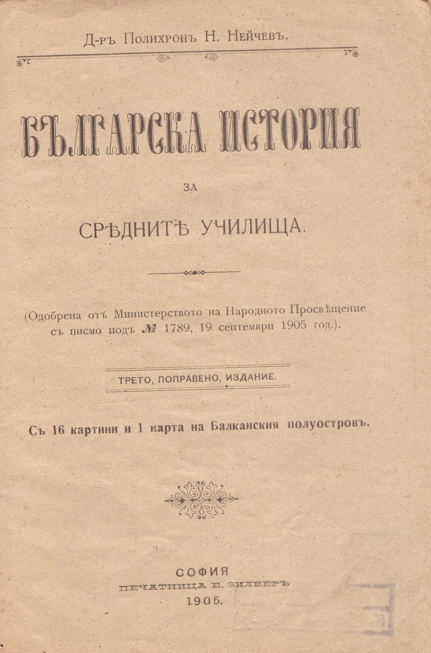 Polihron Neychev Bulgarian History Textbook 1905 3 Edition